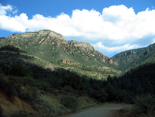 Parker Canyon in the Sierra Ancha, Arizona, from State Route 288. Camera station at approximately 1500 m / 5000 ft. The prominent cliffs topping the canyon at approximately 2150 m / 7000 ft have been formed from erosion-resistant quartzite. Photo: Joe Schallan (User:Jsch), Oct. 2, 2005. Camera: Canon PowerShot A95. Processing: Image auto-leveled and reduced with PhotoShop. Copyright: Image self-made, donated to public domain, all rights released.